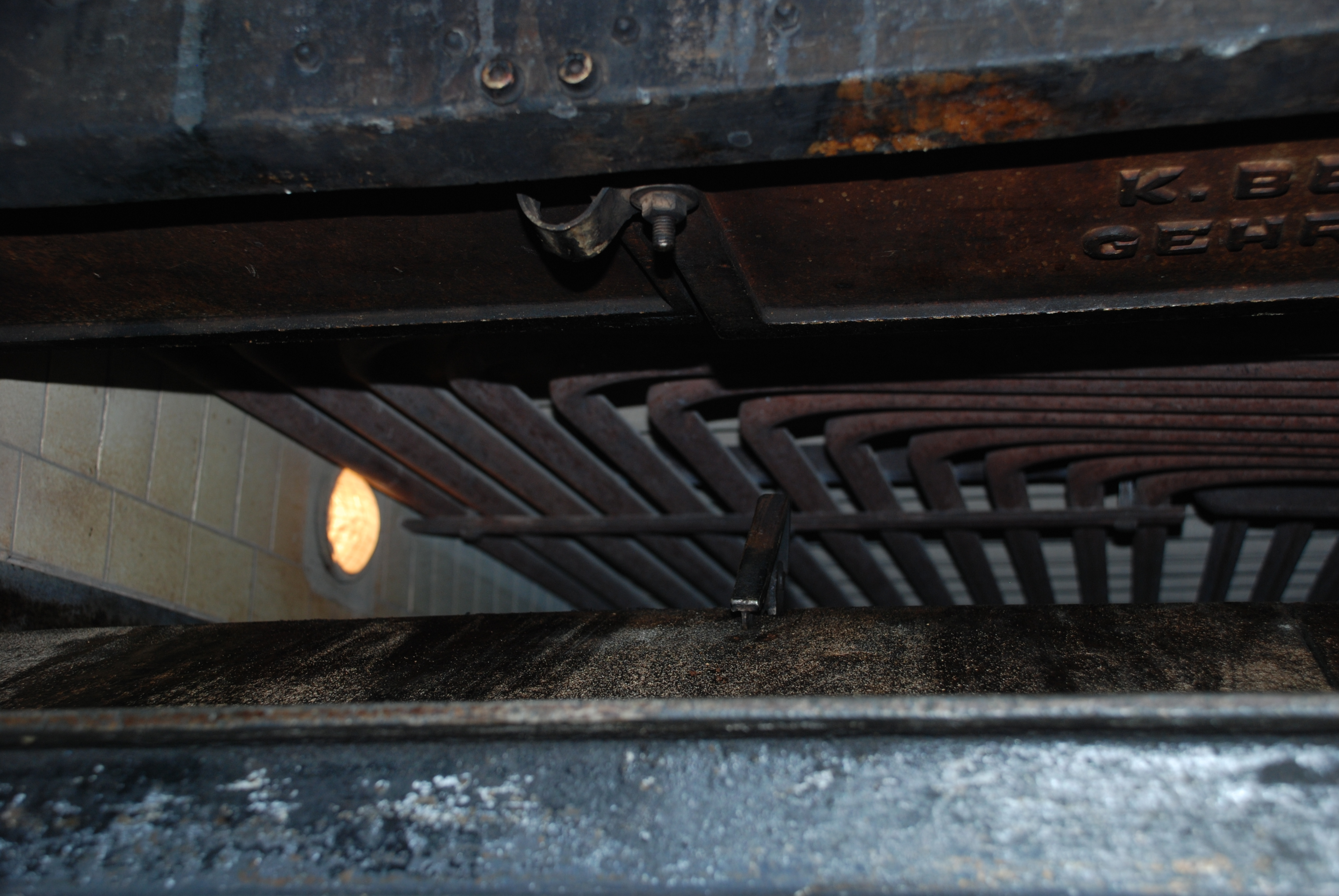 Top heat of a baking oven, built 1959 in a bakery in Schloss Ricklingen, Germany